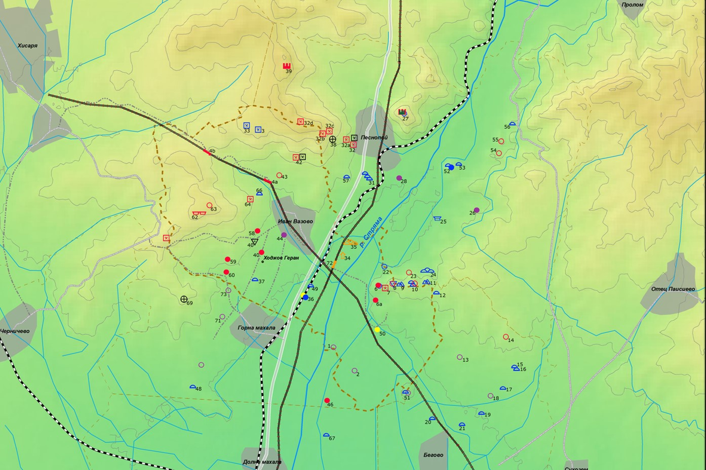 Ivan Vazovo map